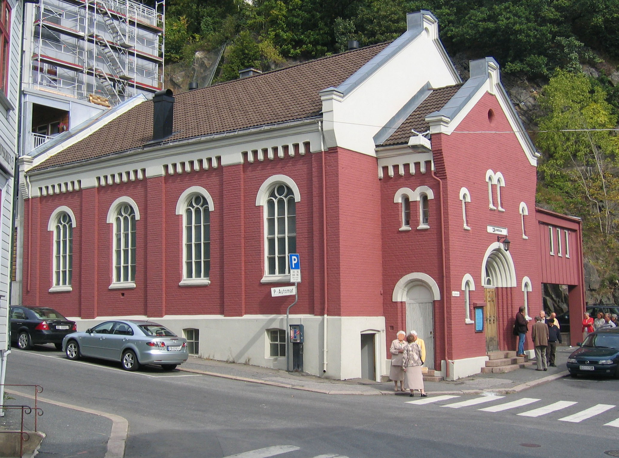 The metodist church of Arendal, Norway